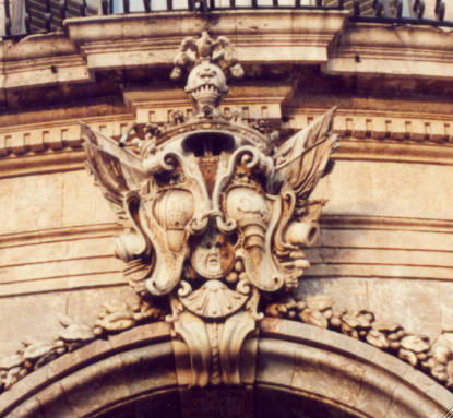 Stemmi delle famiglie Paternò Castello e Asmundo, Palazzo San Giuliano, Catania